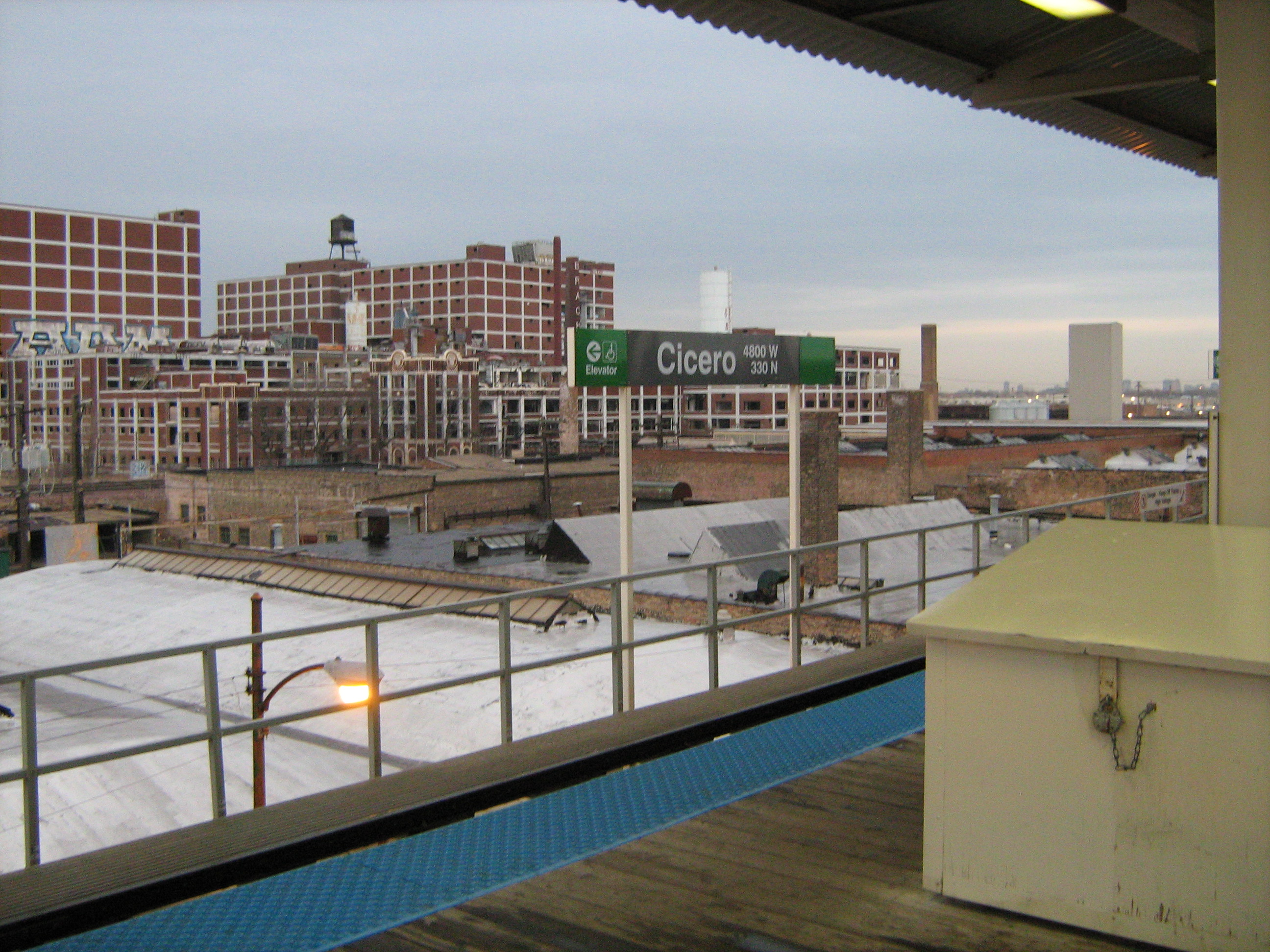 Cicero CTA Green Line Station